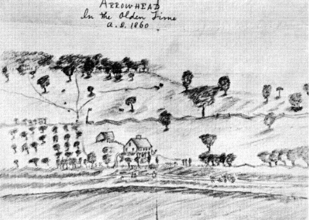 Sketch of Herman Melville's Arrowhead estate in Pittsfield, Massachusetts.